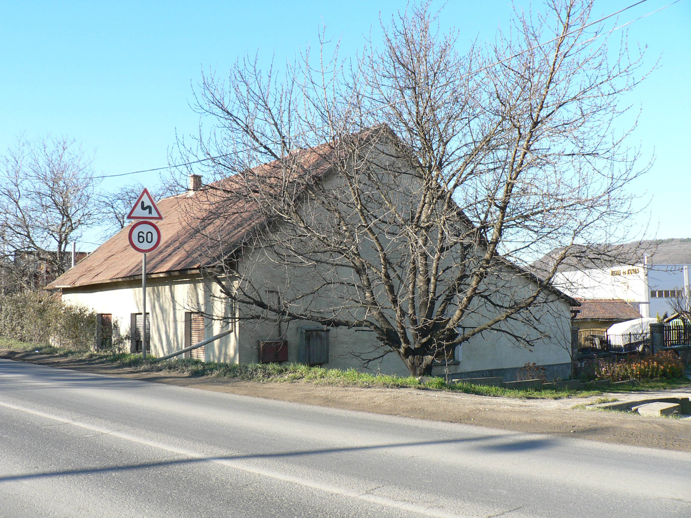 Az eredeti Szarvas-kocsma épülete ma lakóház